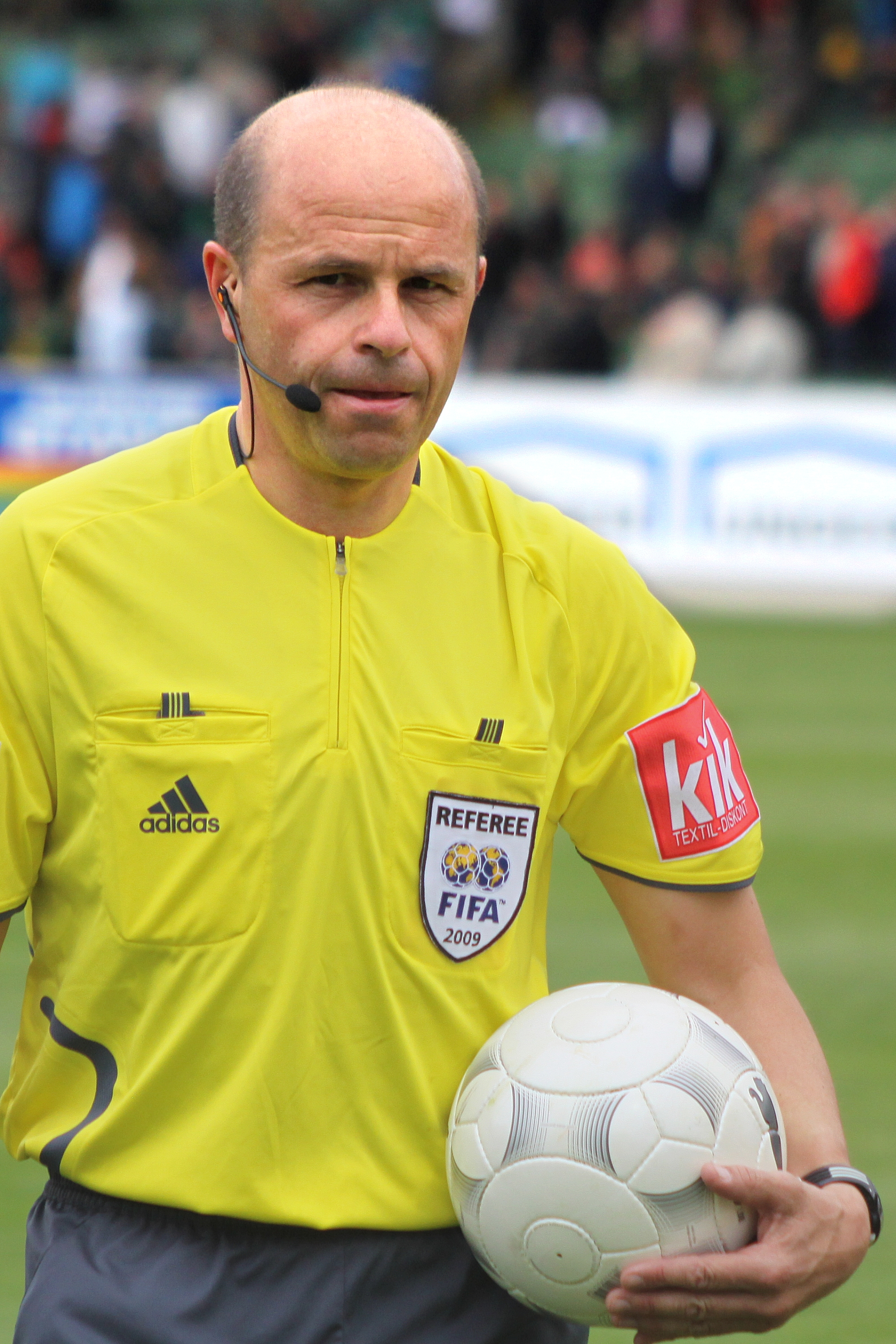 Konrad Plautz, Referee of Austria